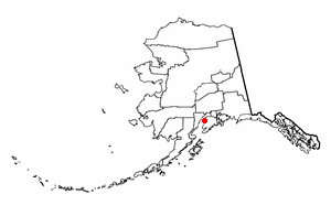 Adapted from Wikipedia's AK borough maps by Seth Ilys.